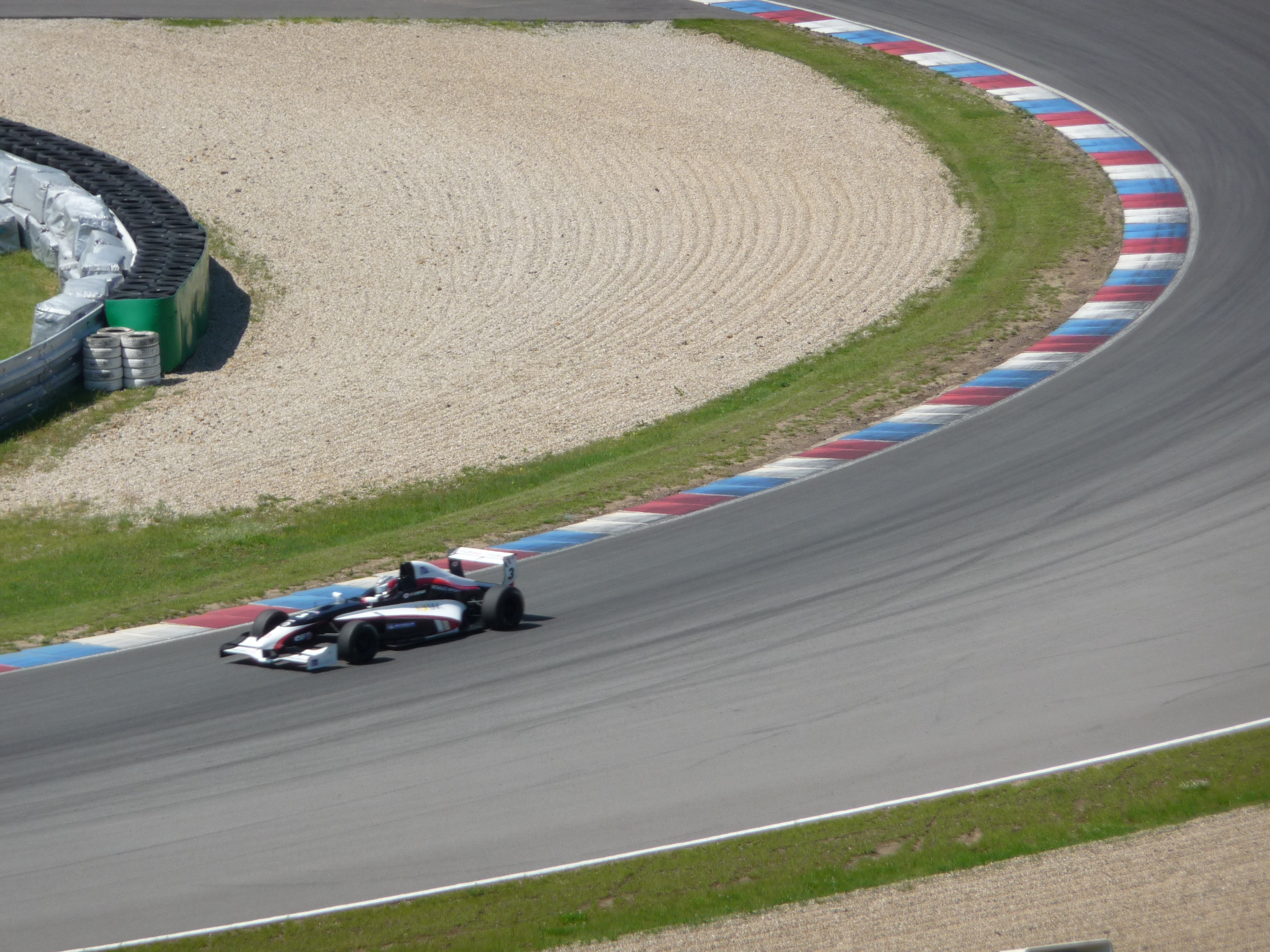 Giovanni Venturini, Eurocup Formula Renault 2.0, 2nd race, 2010 Brno World Series by Renault